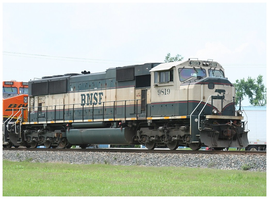 Burlington Northern Santa Fe 9819 EMD SD70MAC